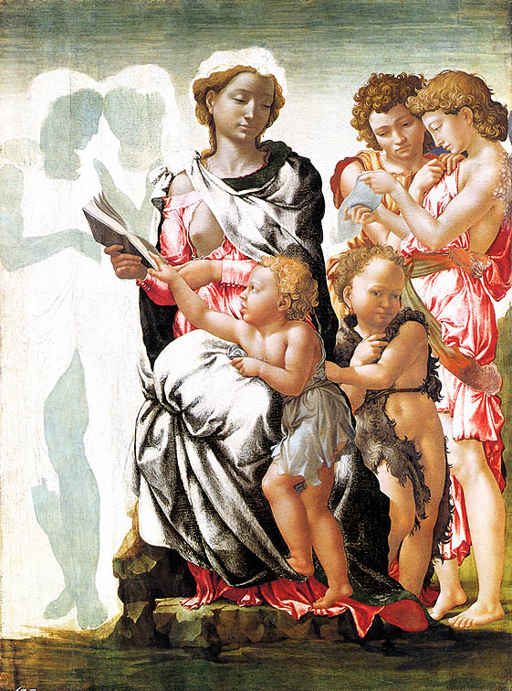 Michelangelo Buonarroti: The Virgin and Child with Saint John and Angels (The Manchester Madonna), Tempera on wood, 104,5 x 77 cm (Inv.: 809)